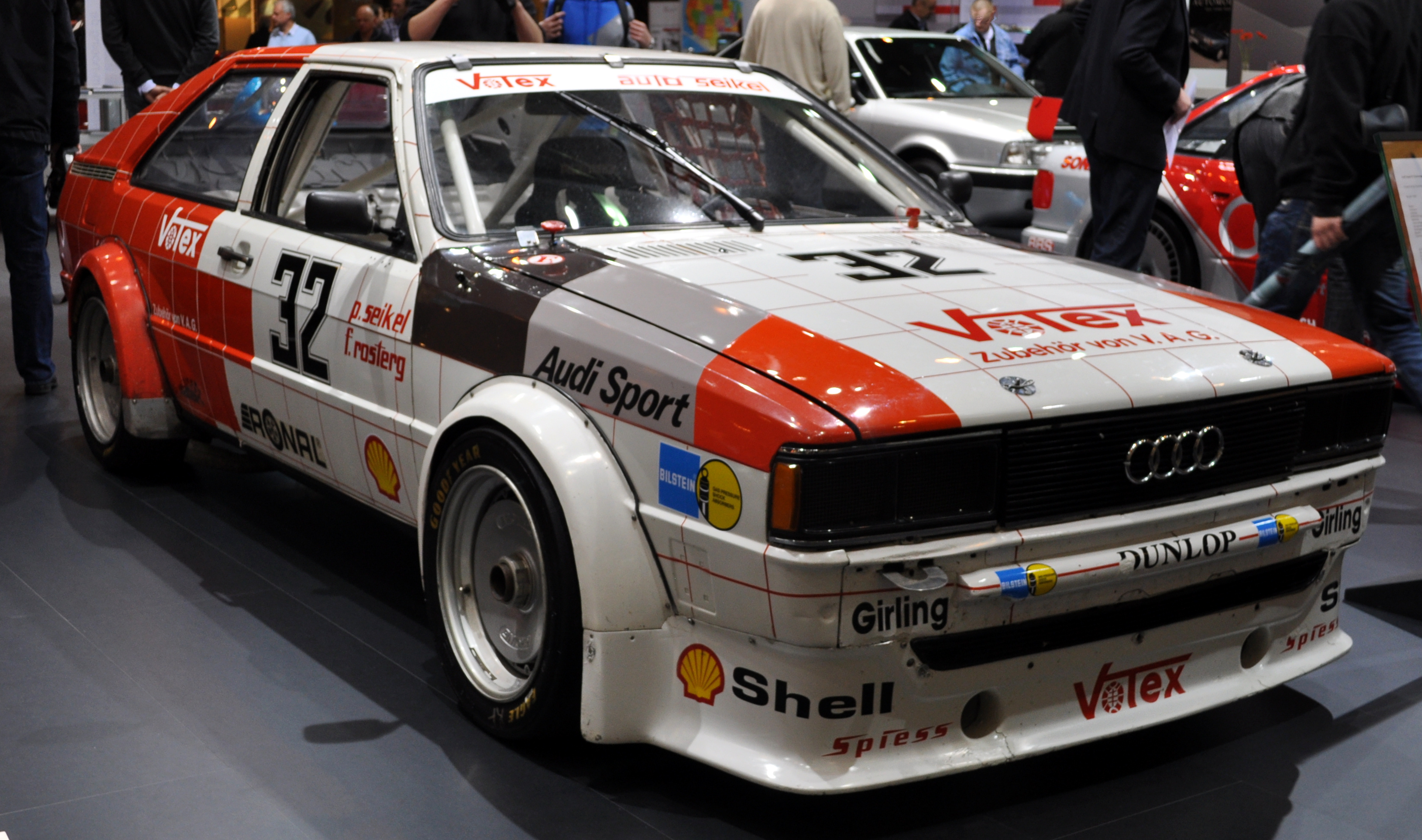 Audi Coupé B2 GT Gruppe 2 (1981) at the Technoclassica 2011 in Essen